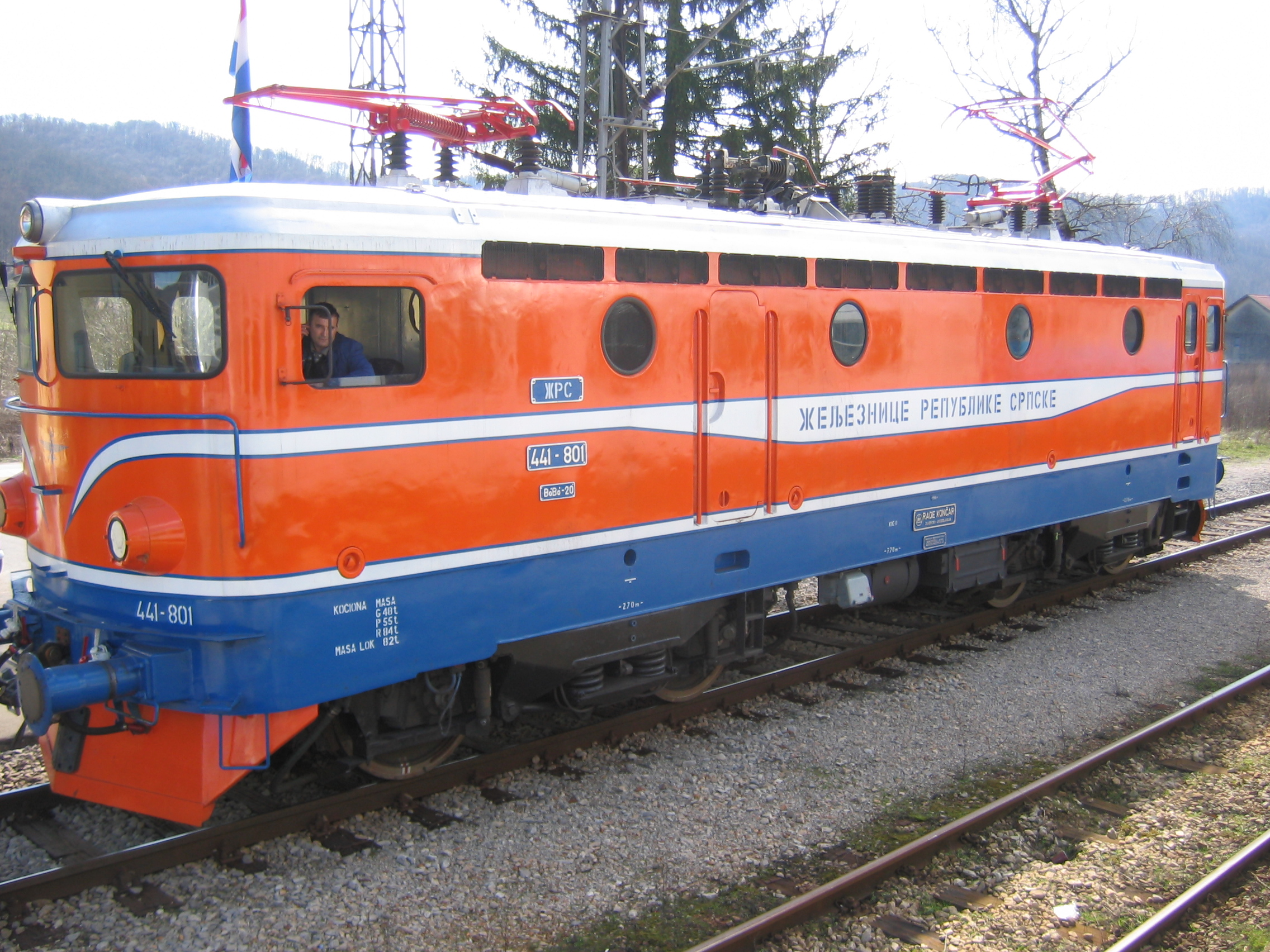 A locomotive of the Railways of Republika Srpska in Dobrljin at the Croat-Bosnian border. The scripture says: "Жељезнице Републике Српске" ("Žeǉeznice Republike Srpske"): "Railways of Republika Srpska"